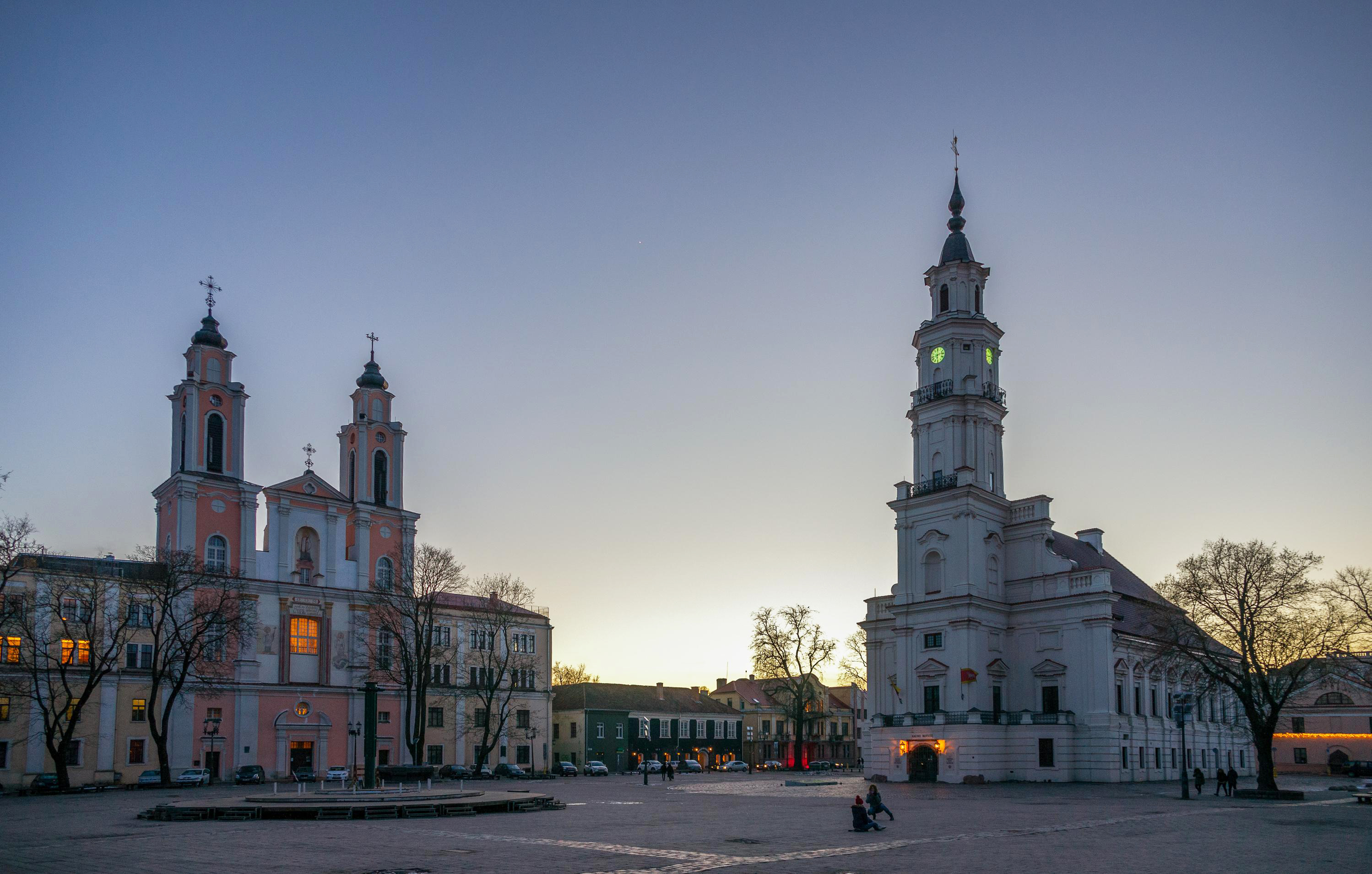 Church of St. Francis Xavier and Kaunas Town Hall during winter in Kaunas, Lithuania.